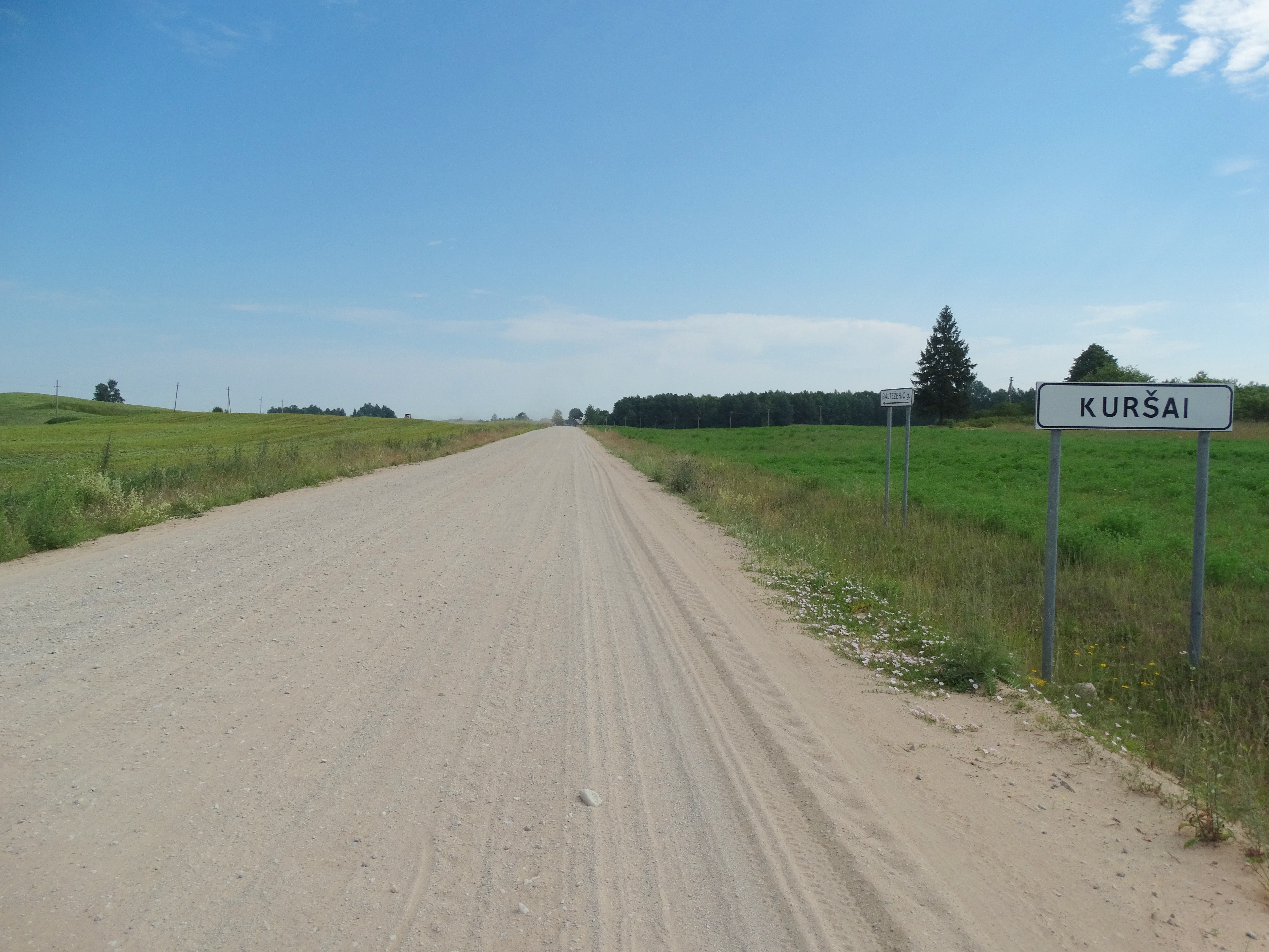 Kuršai, Telšiai district, Lithuania